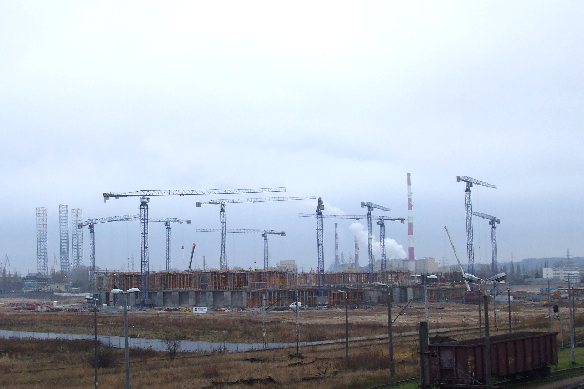 The football stadium in Gdańsk Letnica (Poland) under construction, November 2009.